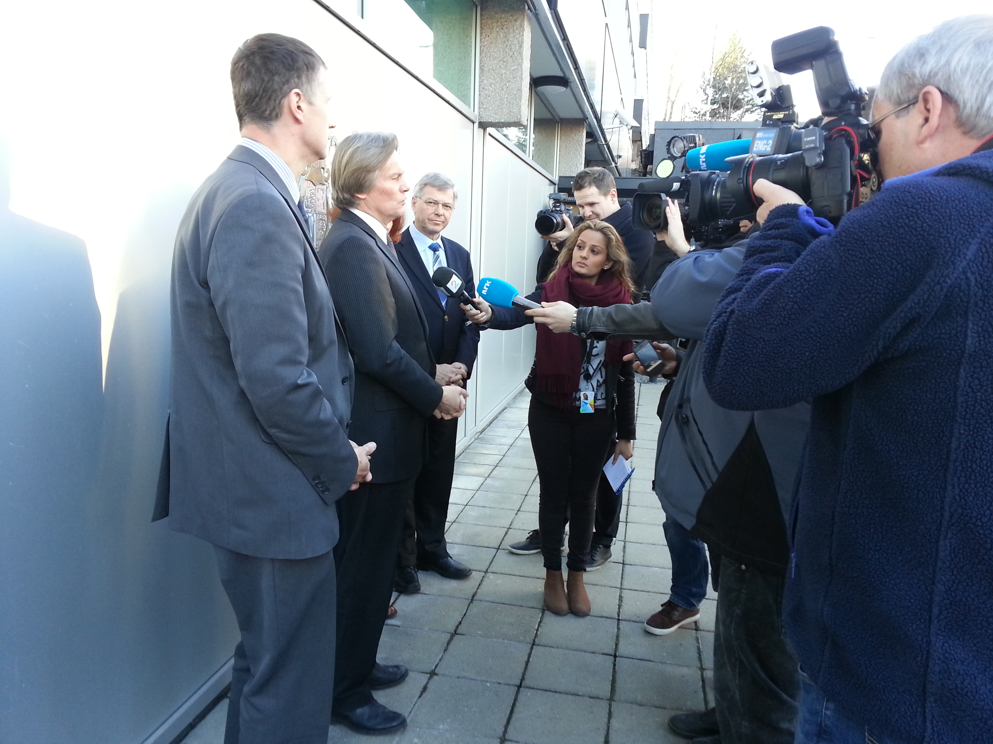 The father of Martine Vik Magnussen speaks to the press about his appeal for Farouk Abdelhak to return from Yemen to the UK to stand trial for the rape and murder of his daughter.